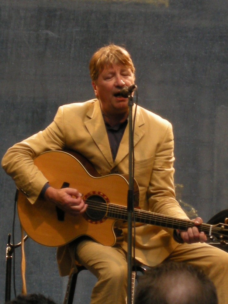 Henk Hofstede of the dutch Band Nits at the Haags UIT Festival 2008